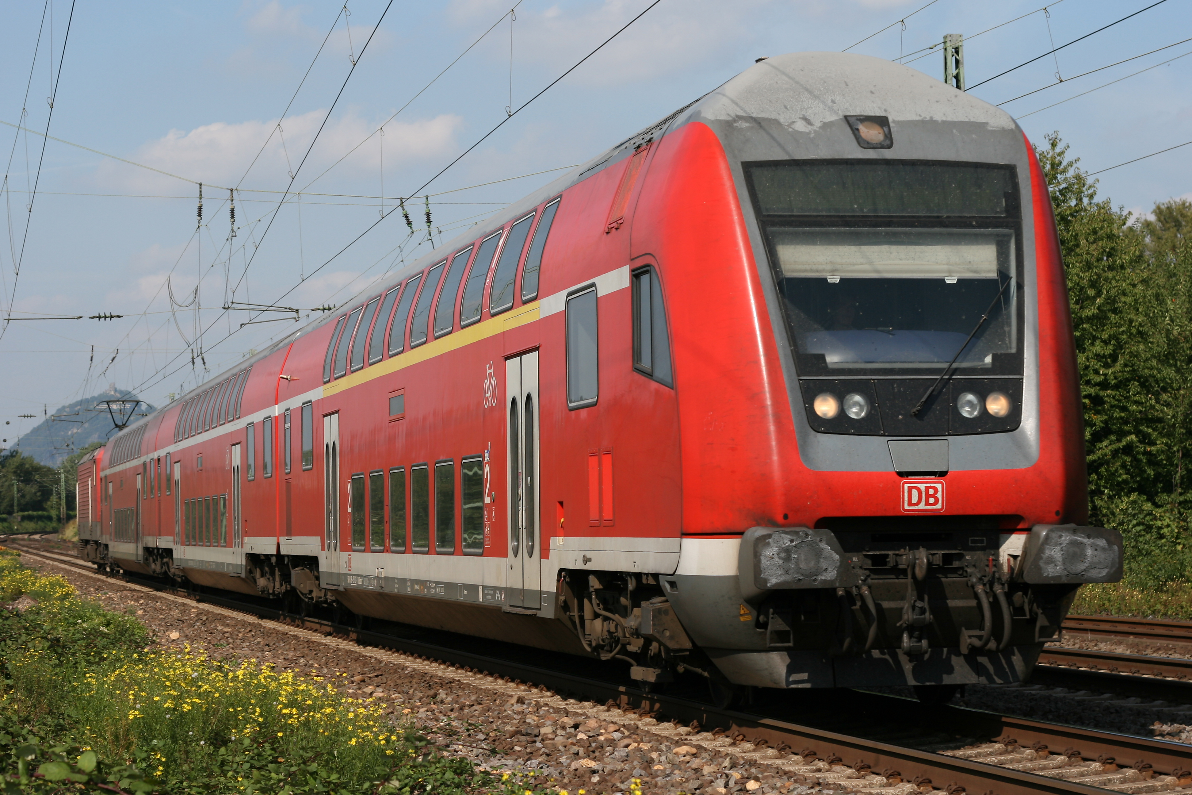 Rhein-Erft-Bahn (Regionalbahn 27) near Unkel, Germany